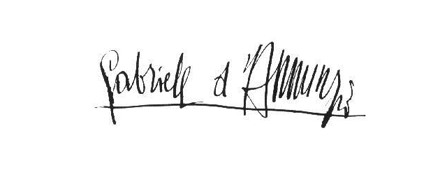 Gabriele D'Annunzio's signature.